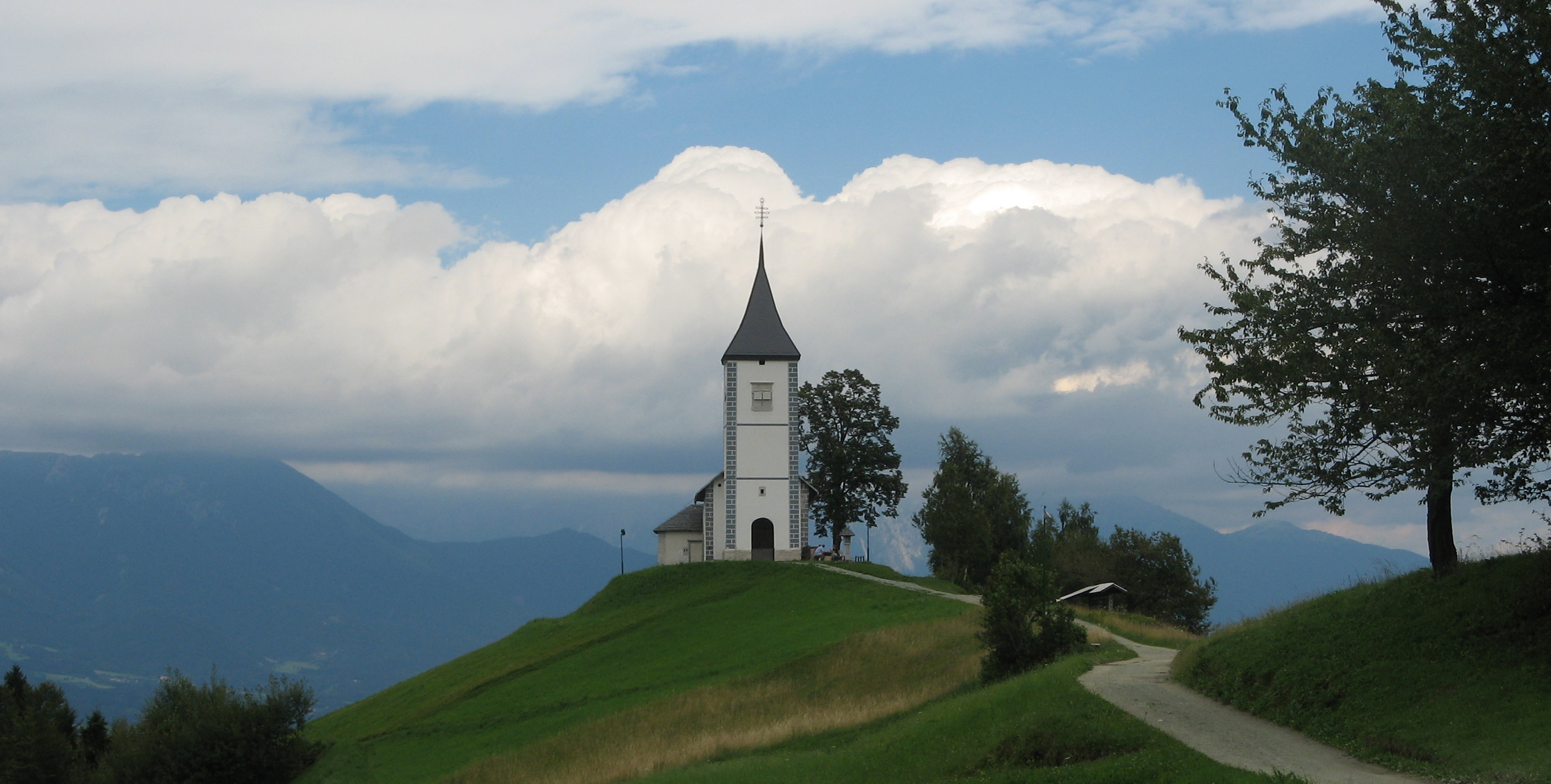 Church of Saint Primus and Felicianus, just outside Jamnik in the Kranj Municipality in Slovenia